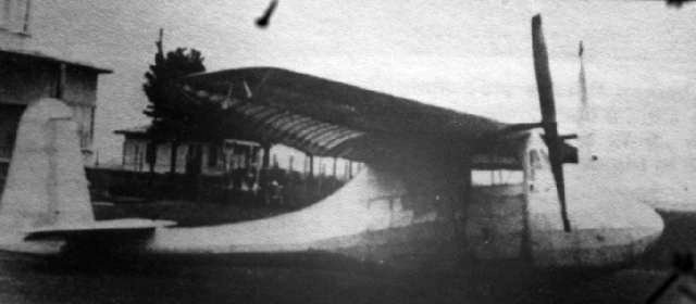 The Pedaliante, designed and built by Italian-American aerospace engineer and aviation pioneer Enea Bossi sr, 1937.